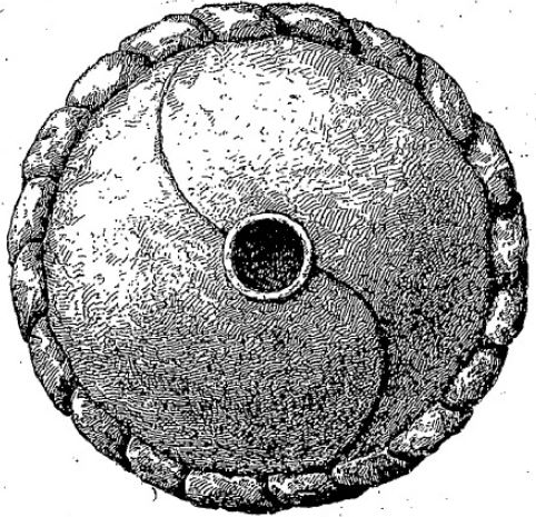 Image of the Article ESSAI D'INTERPRÉTATION D'UN DES MONUMENTS DE COPAN (HONDURAS) by Ernest Théodore Hamy, Curator of the Musée d'Ethnographie of France, in the Journal Revue d'ethnographie, 1886. Hamy comments in this article the similarity of the symbol of this Mayan altar of Copan, with the Indo-Chinese symbology.